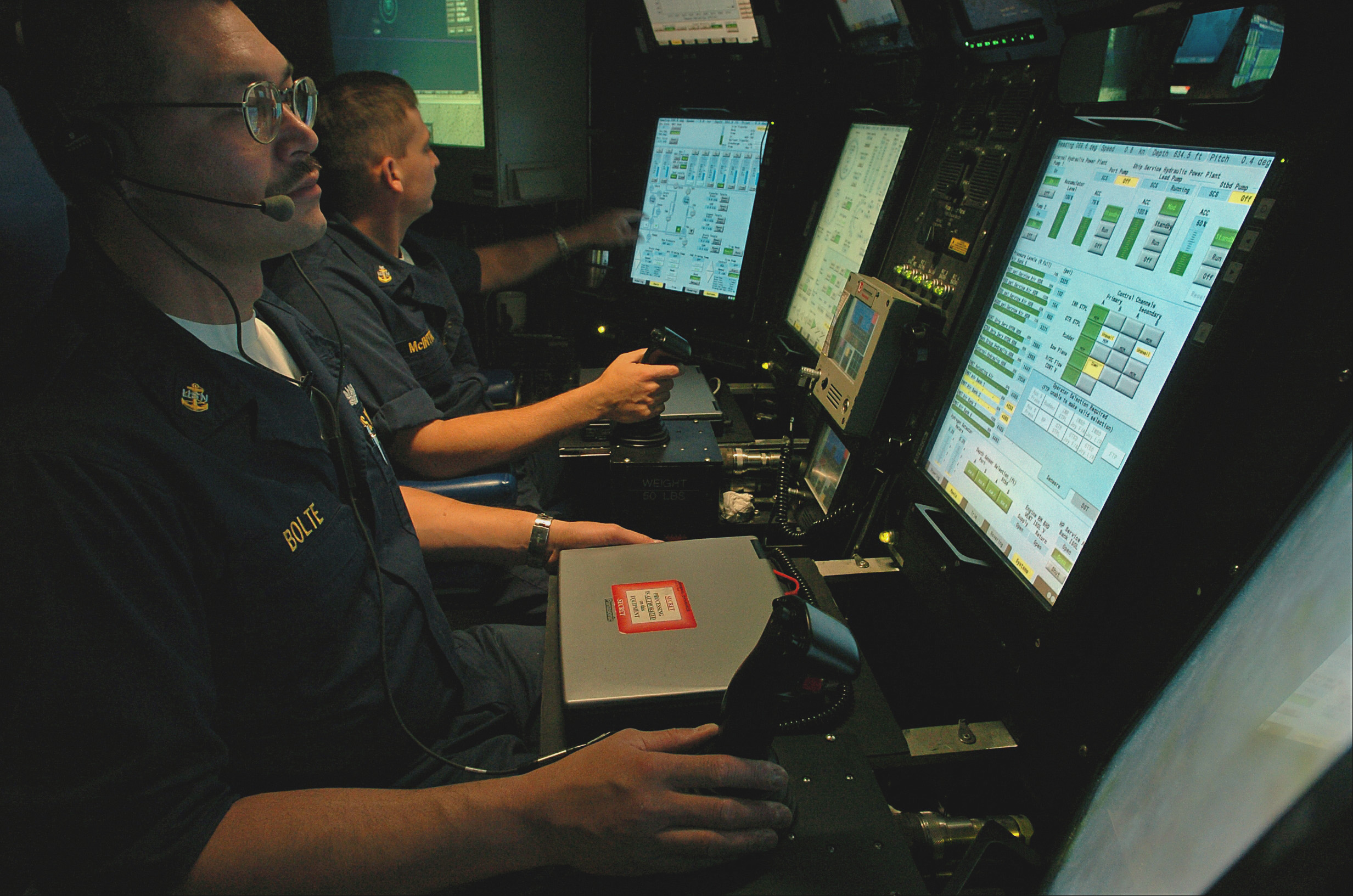 Control system (SSN-774)